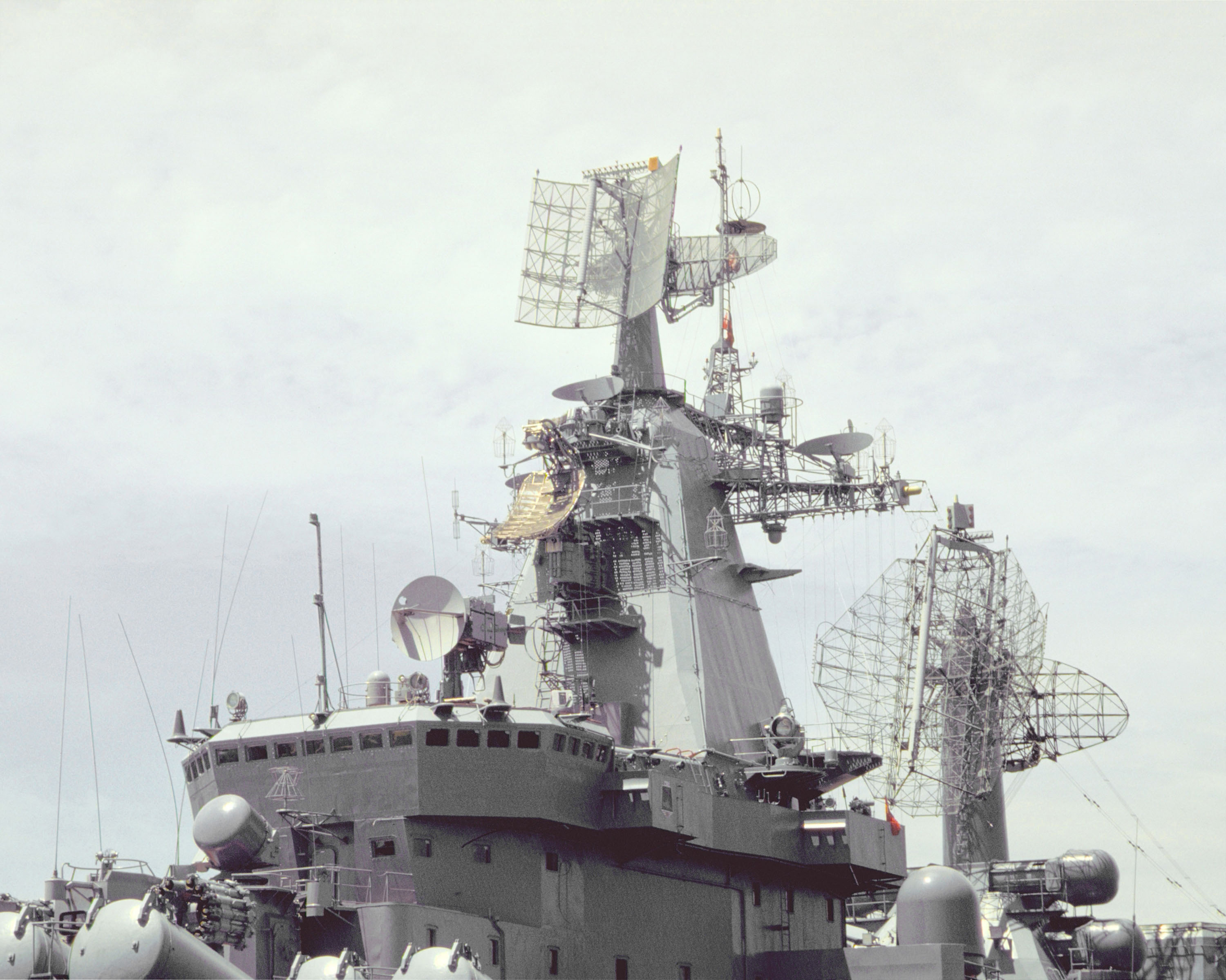 A port view of the superstructure on the Soviet Slava class guided missile cruiser Marshal Ustinov (CG-088). Atop the bridge pylon is a Top Steer surveillance radar. Further aft is the Top Pair (Top Sail and Big Net) surveillance radar. The Marshal Ustinov is in port with another surface combatant and an oiler for a five-day goodwill visit.